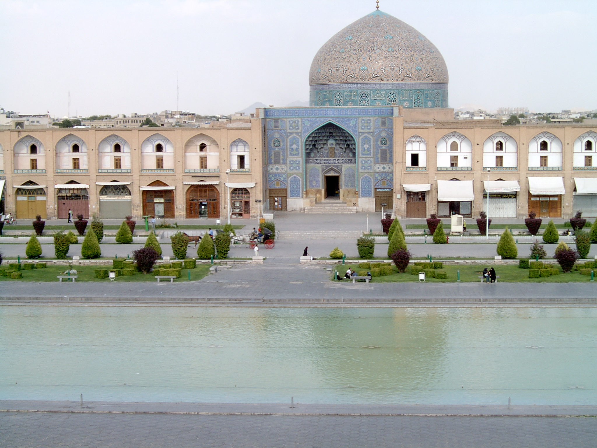 Masjed-e-sheikh lotfollah across nagsh-e-jahan square,Esfahan,Iran.